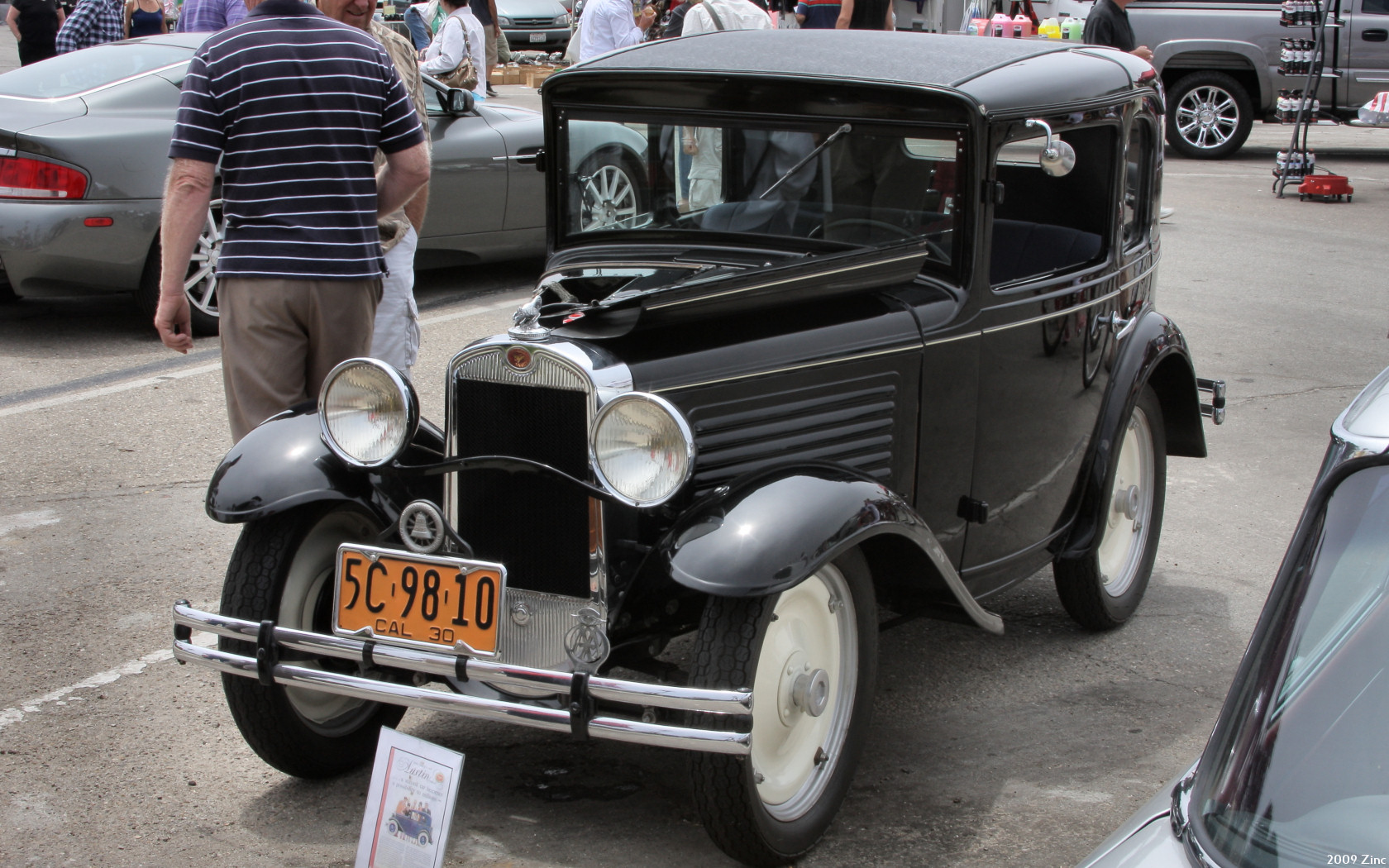 1930 American Austin - black - fvl This photo was taken on July 26, 2009 in Hollywood By The Sea, Oxnard, CA, US.